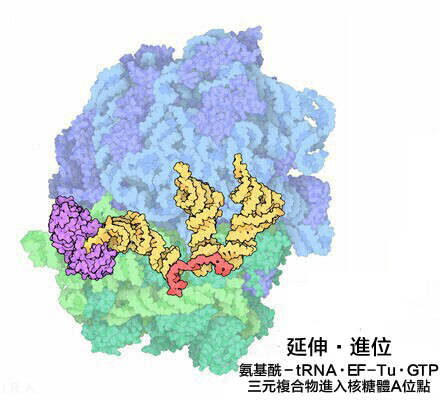 entering of translation